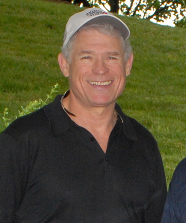 John Riggins, former American Football running back, playing from 1971-1985. He was elected to the Pro Football Hall of Fame in 1992.